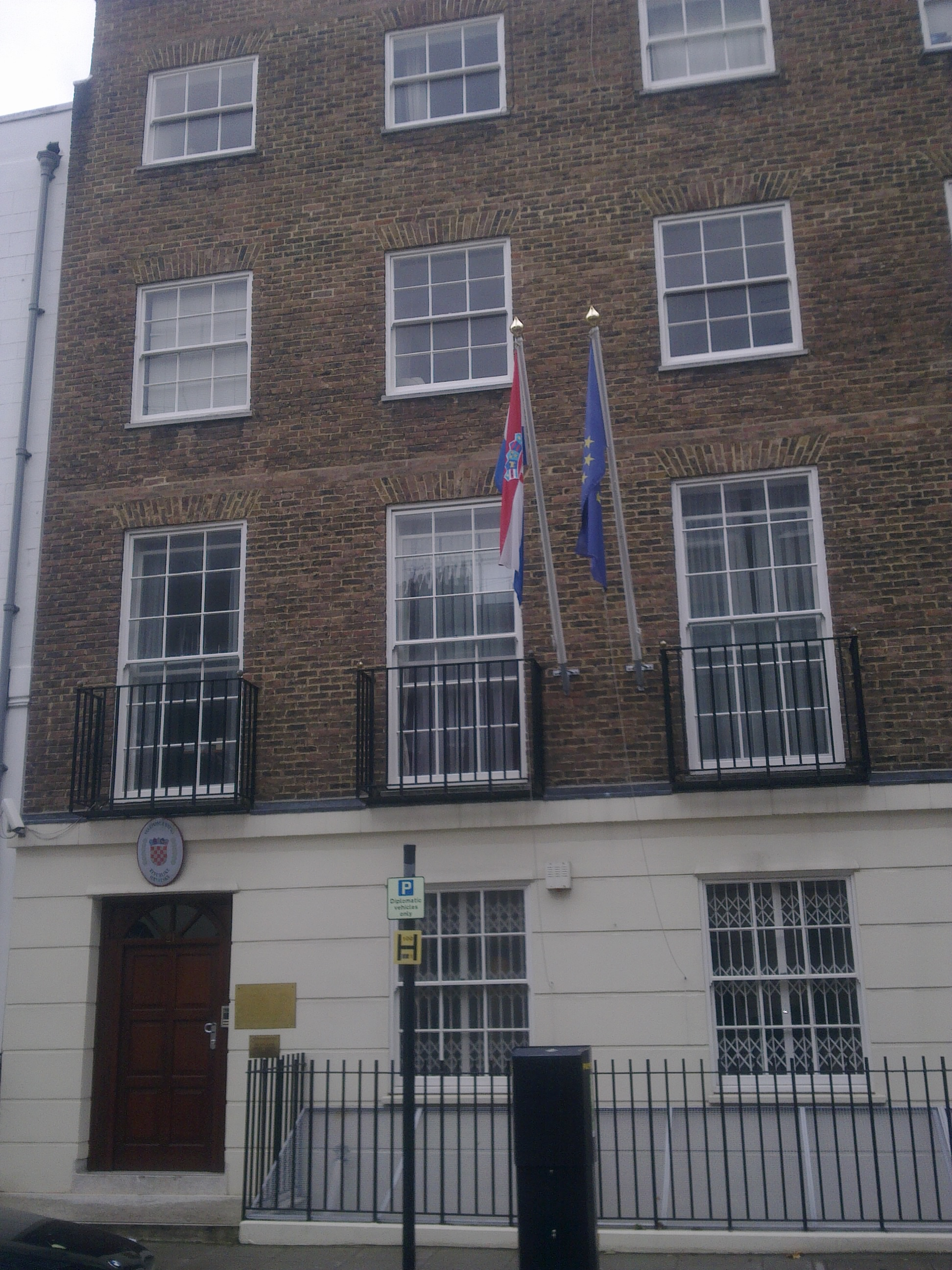 Embassy of Croatia in London 1